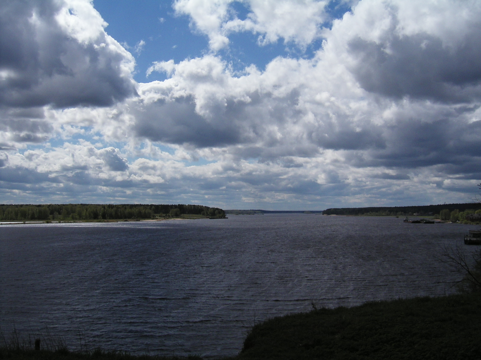 View of Volga from the Upper Boulevard in Myshkin